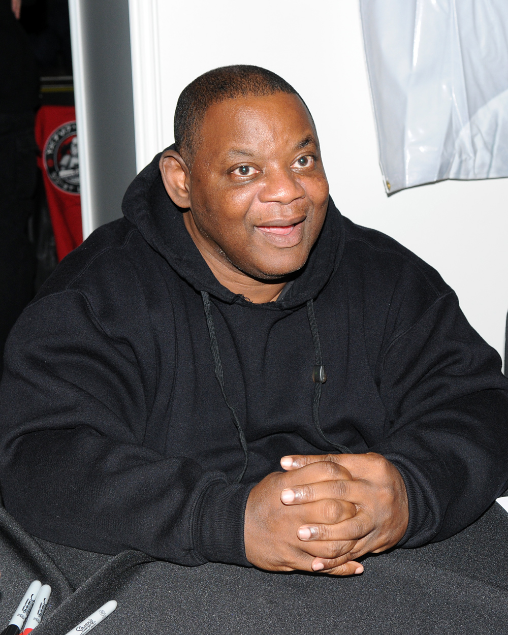 Ken Sagoes @ Weekend Of Horrors 11 - Turbinenhalle Oberhausen, Germany 2013